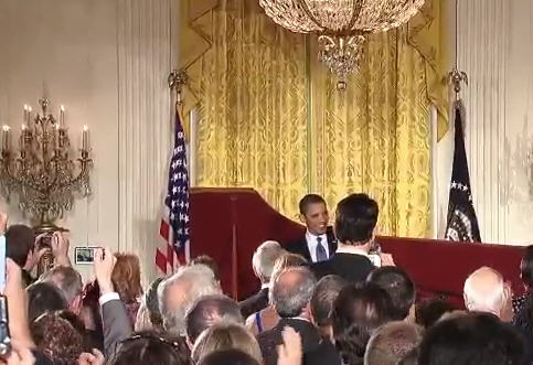 President Obama welcomes invited guests to White House reception for Jewish American Heritage month, May 2010.